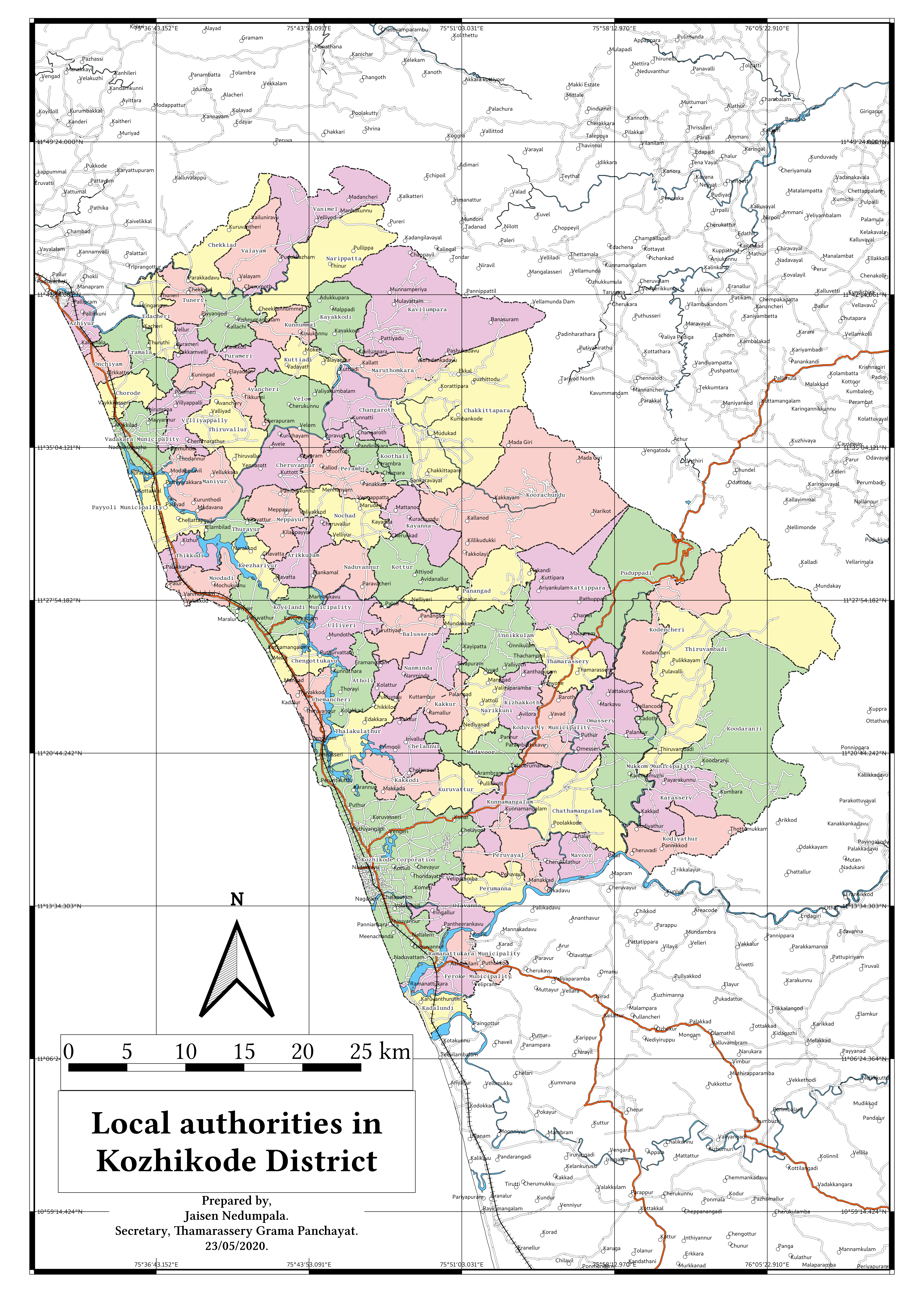 The map of village panchayats, municipalities and Kozhikode Corporation in Kozhikode district.